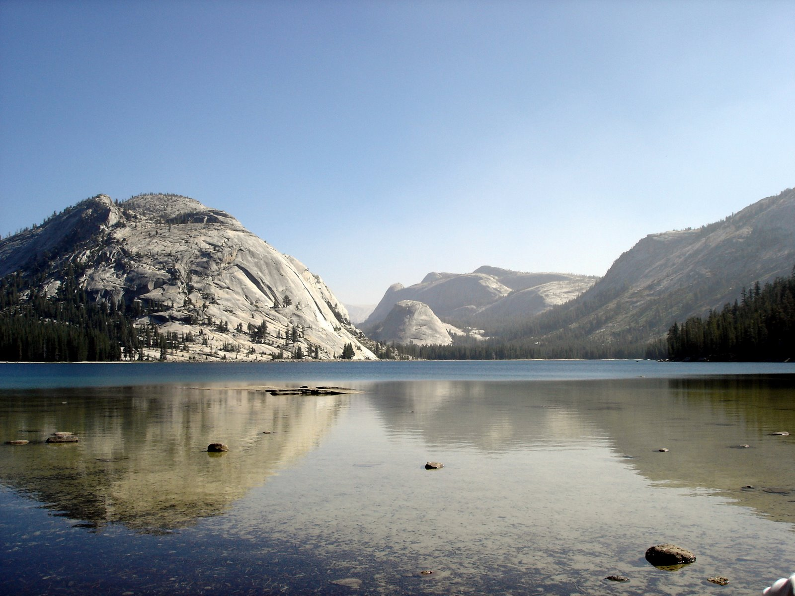 Tenaya Lake in Yosemite National Park. I took this picture.